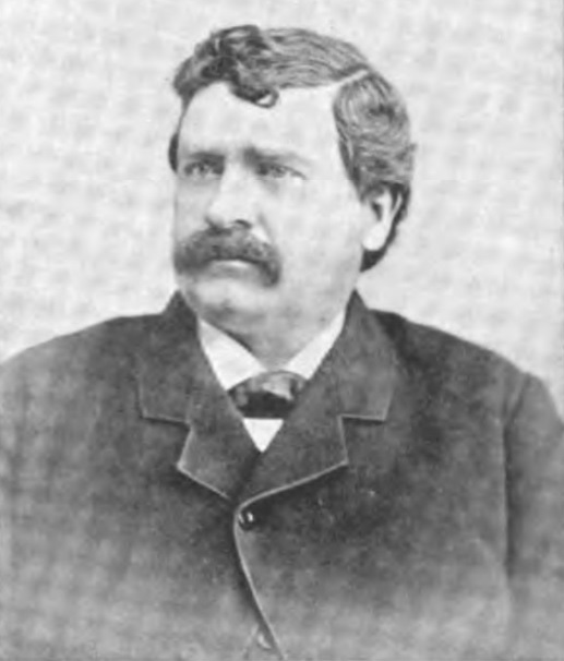 John T. Dunn (New Jersey Congressman)